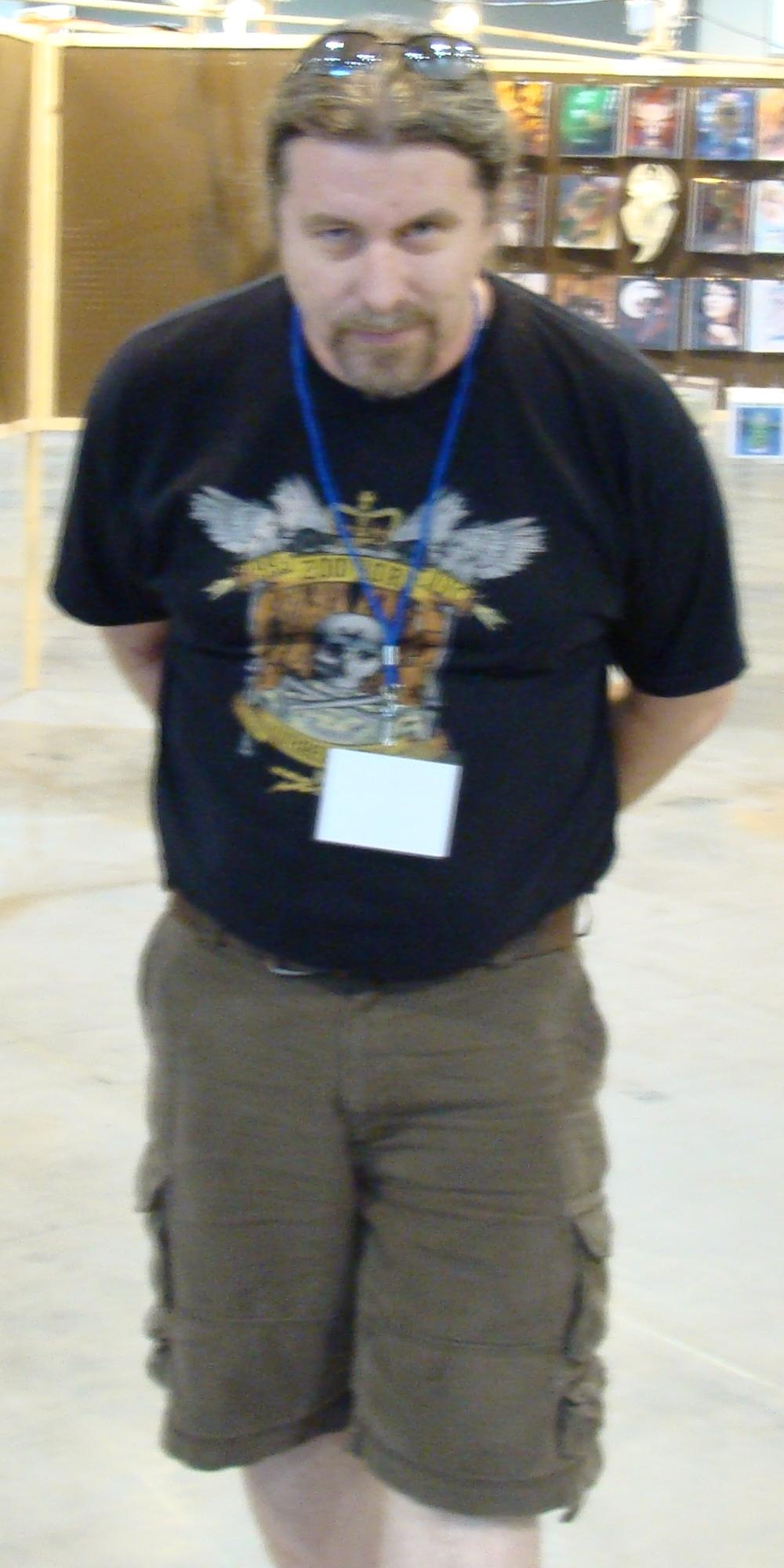 Bob Eggleton at a convention in Denver in 2008